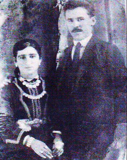 This is a photo of Josif Filo with his wife.